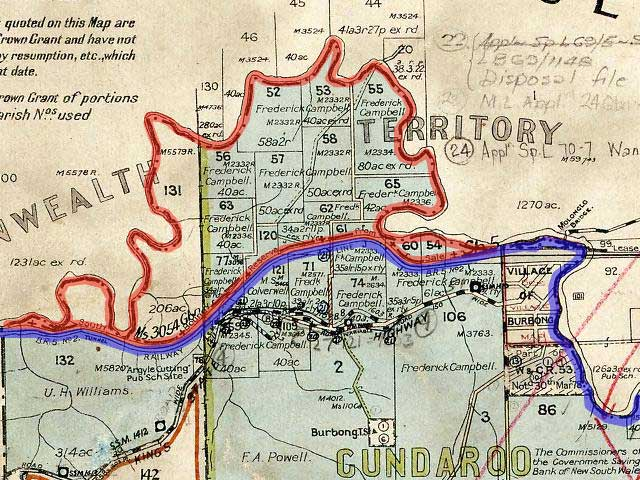 Map of the small part of the Parish of Carwoola, which was transferred to the ACT in 1909. Current parish boundary The small parts of the parish which were transferred to the Commonwealth for the ACT in 1909